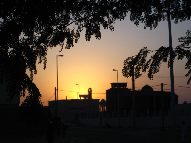 Location: Muzahimiyah (55km Southwestern Riyadh), Saudi Arabia. Note: Muzahimiyah is a small city located in Riyadh Area. It was founded in the 16th Century as a colony of an independent farms and estates that later joined together to form one Village. No Photoshop